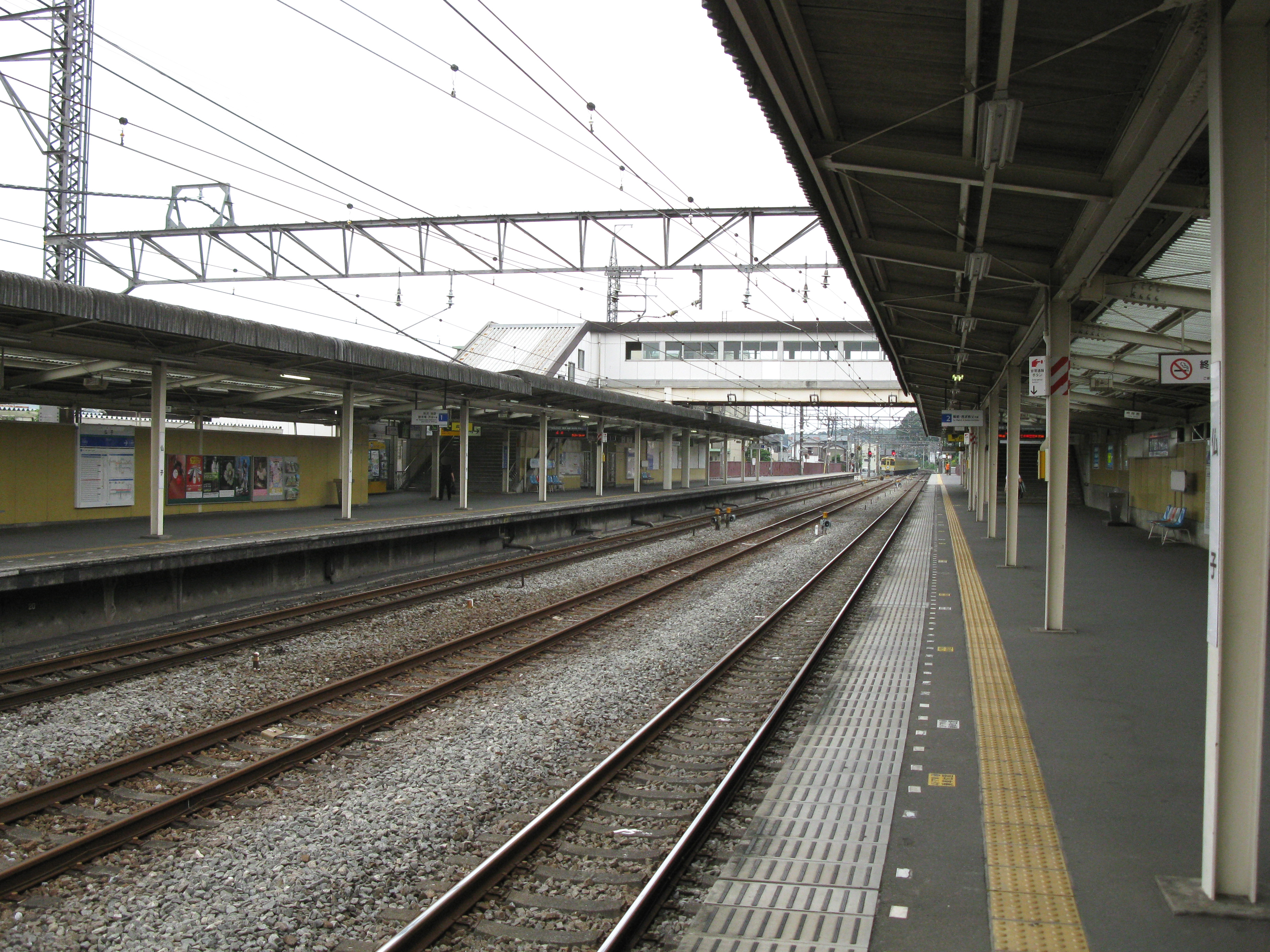 Bushi Station platform (Seibu Railway Ikebukuro Line)